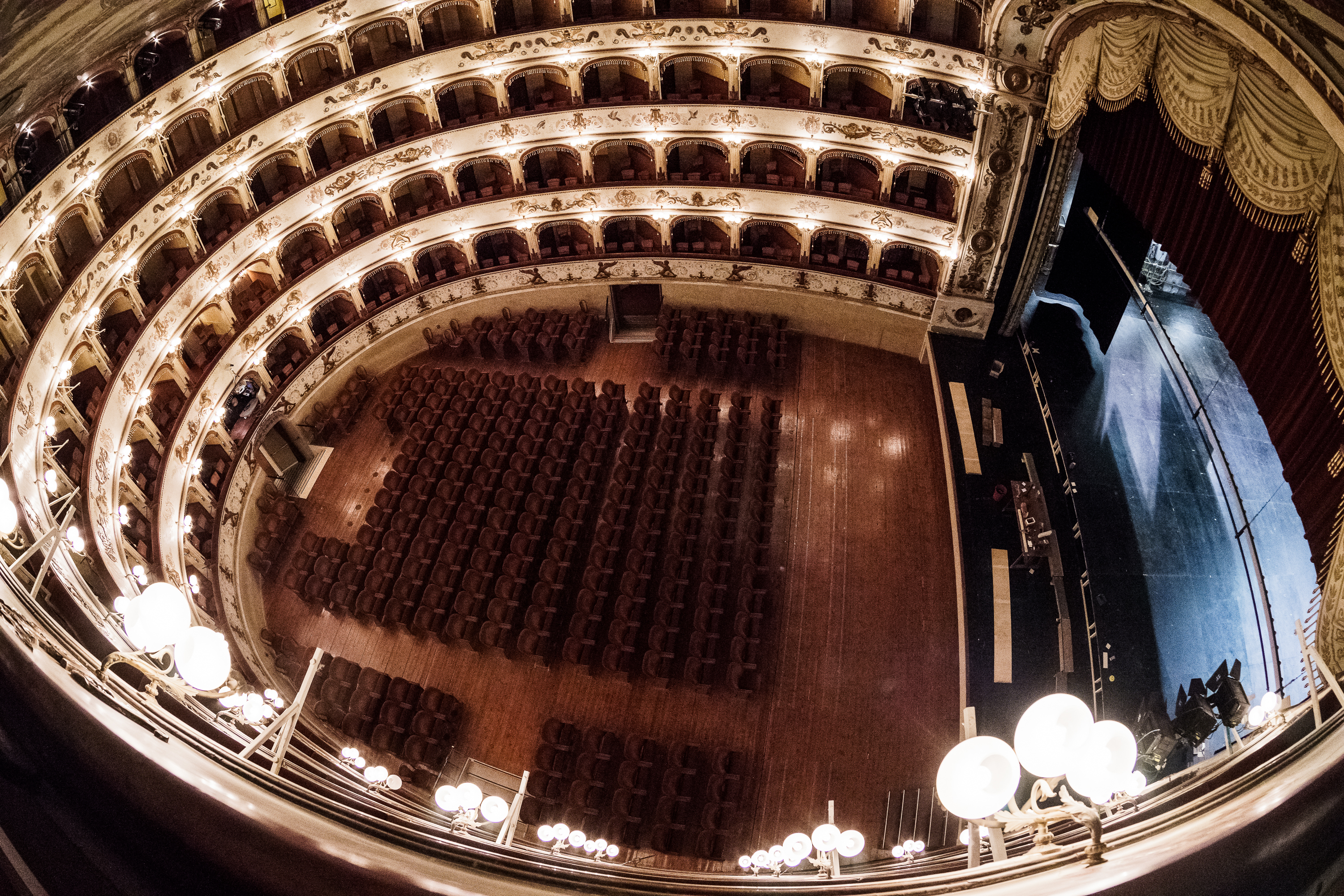 This is a photo of a monument which is part of cultural heritage of Italy.